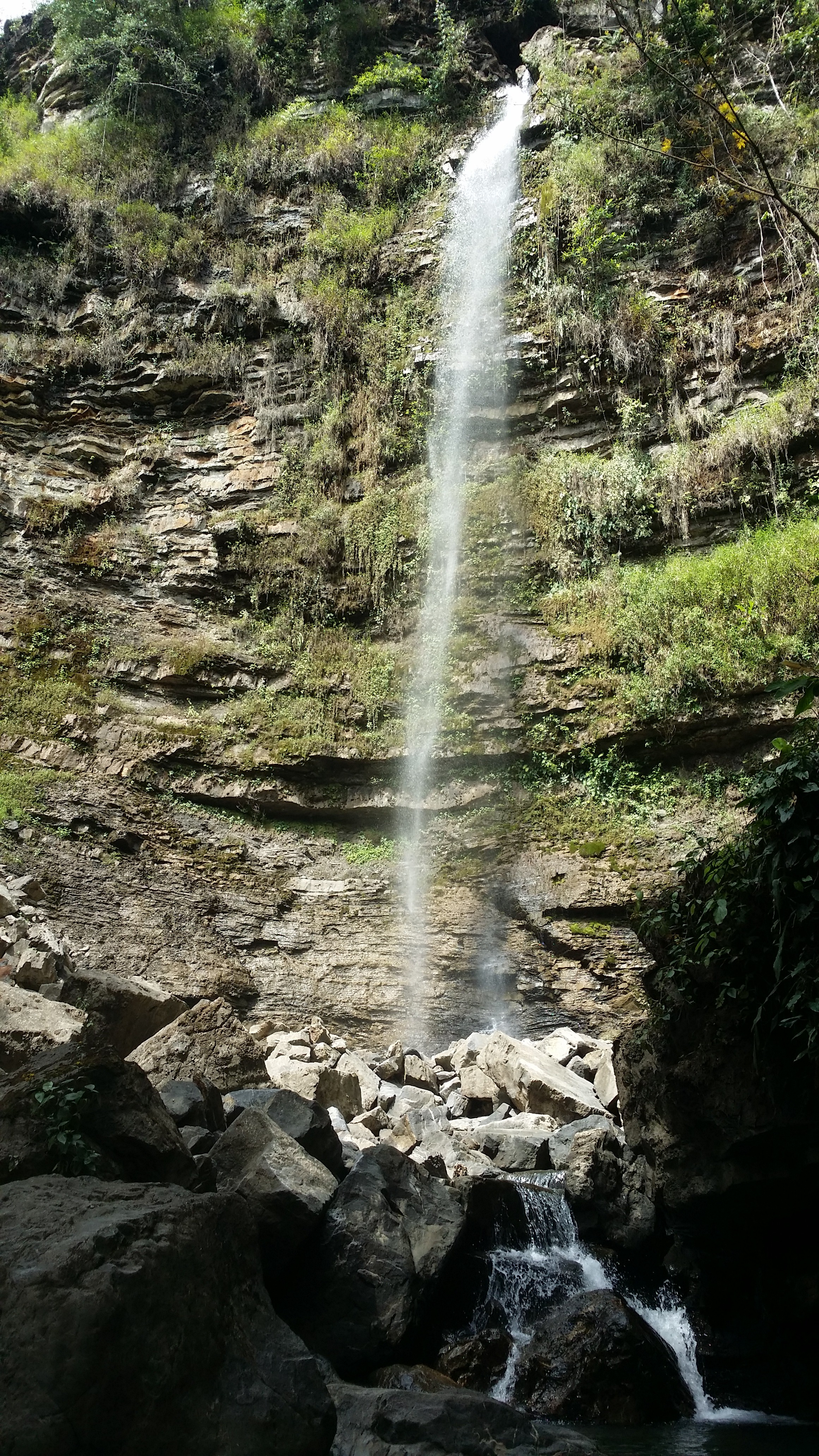 CAIDA DE AGUA DE 70 METROS DE ALTURA APROX. EN LAS MONTAÑAS DEL MUNICIPIO OSPINO DEL ESTADO PORTUGUESA.